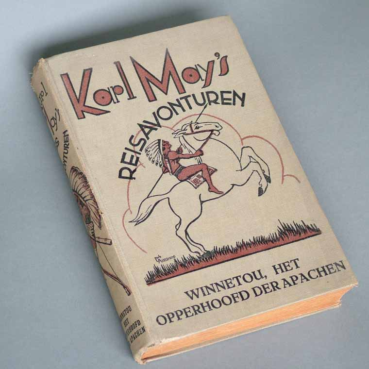 Book, Karl May - Dutch edition - Winnetou I - publisher unknown - approx 1940